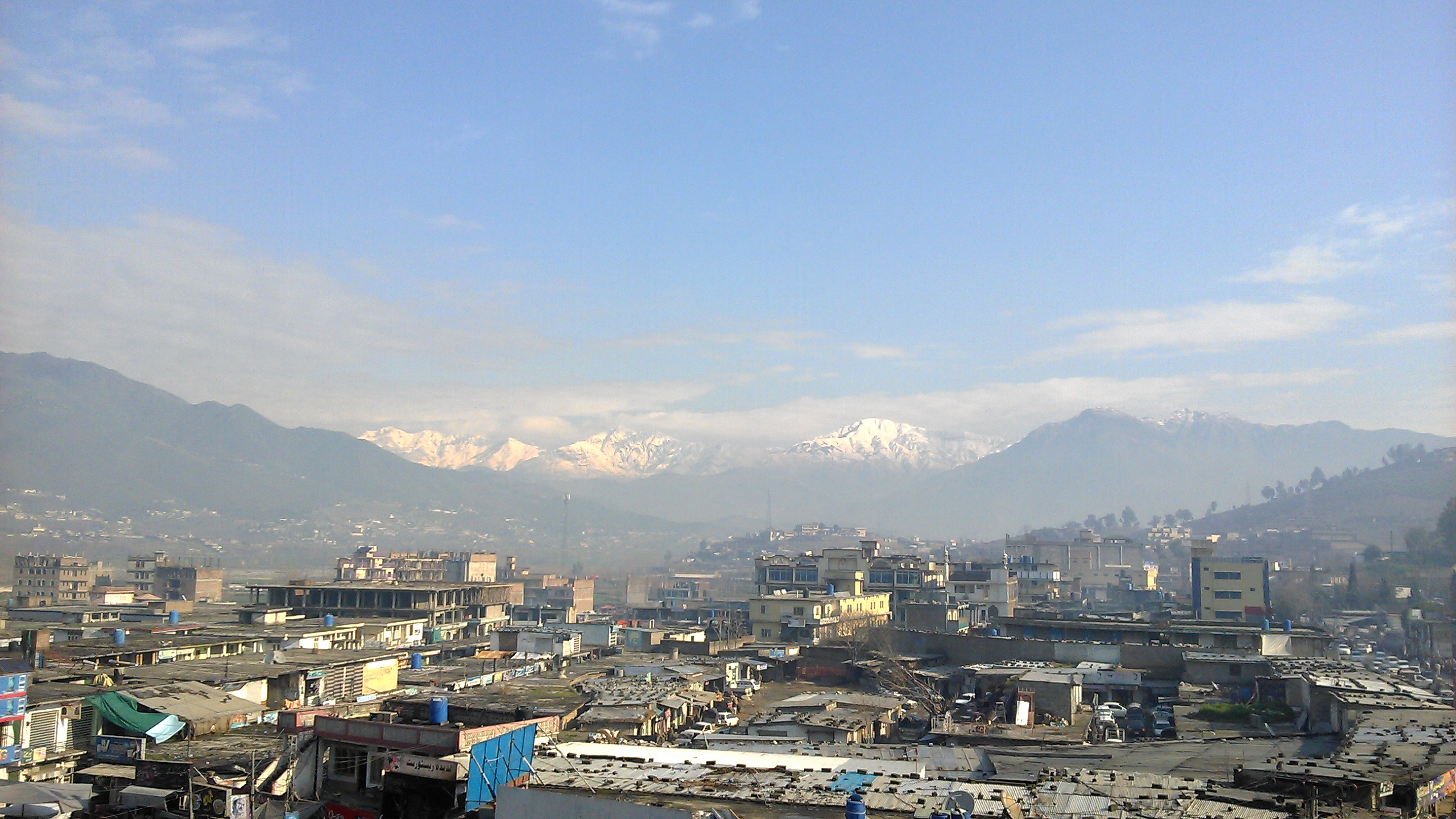 Snow covered mountains Timergara Lower Dir